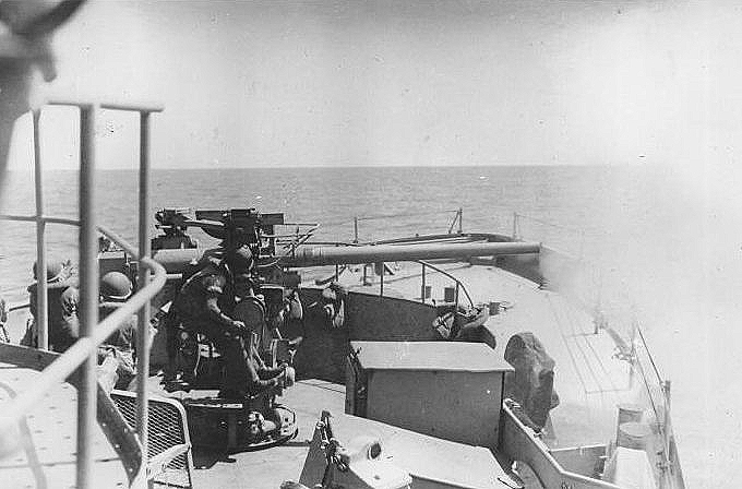 USS Pivot firing its forward 3-inch gun.